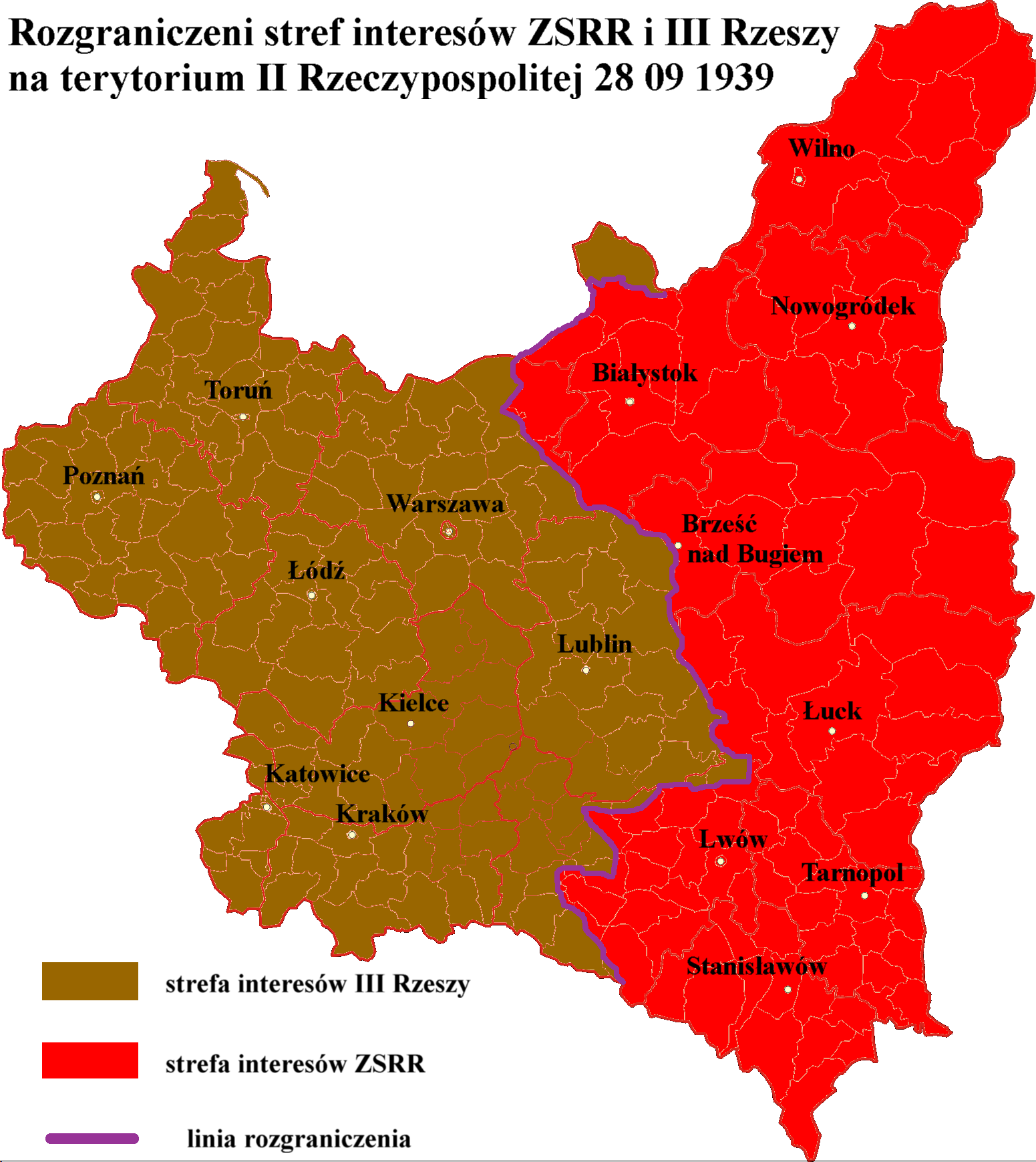 Soviet and German sphere of influence in the Second Polish Republic according to Soviet-German agreement 28 09 1939